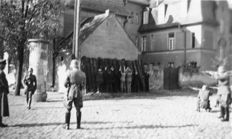 Execution of Polish hostages by an Einsatzgruppe (SS death squad) on 10.20.1939 in occupied Kórnik (during the German Nazi occupation of 1939-45).